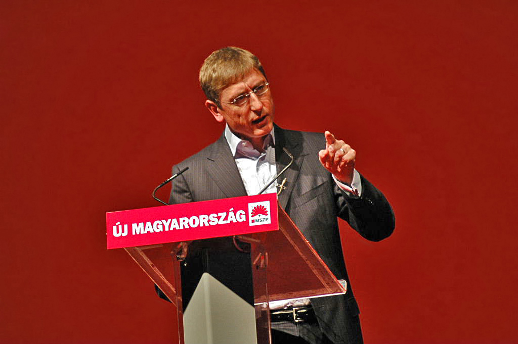 Ferenc Gyurcsány, the 6th Prime Minister of the Republic of Hungary